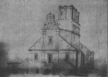 Rathaus, Olyka.